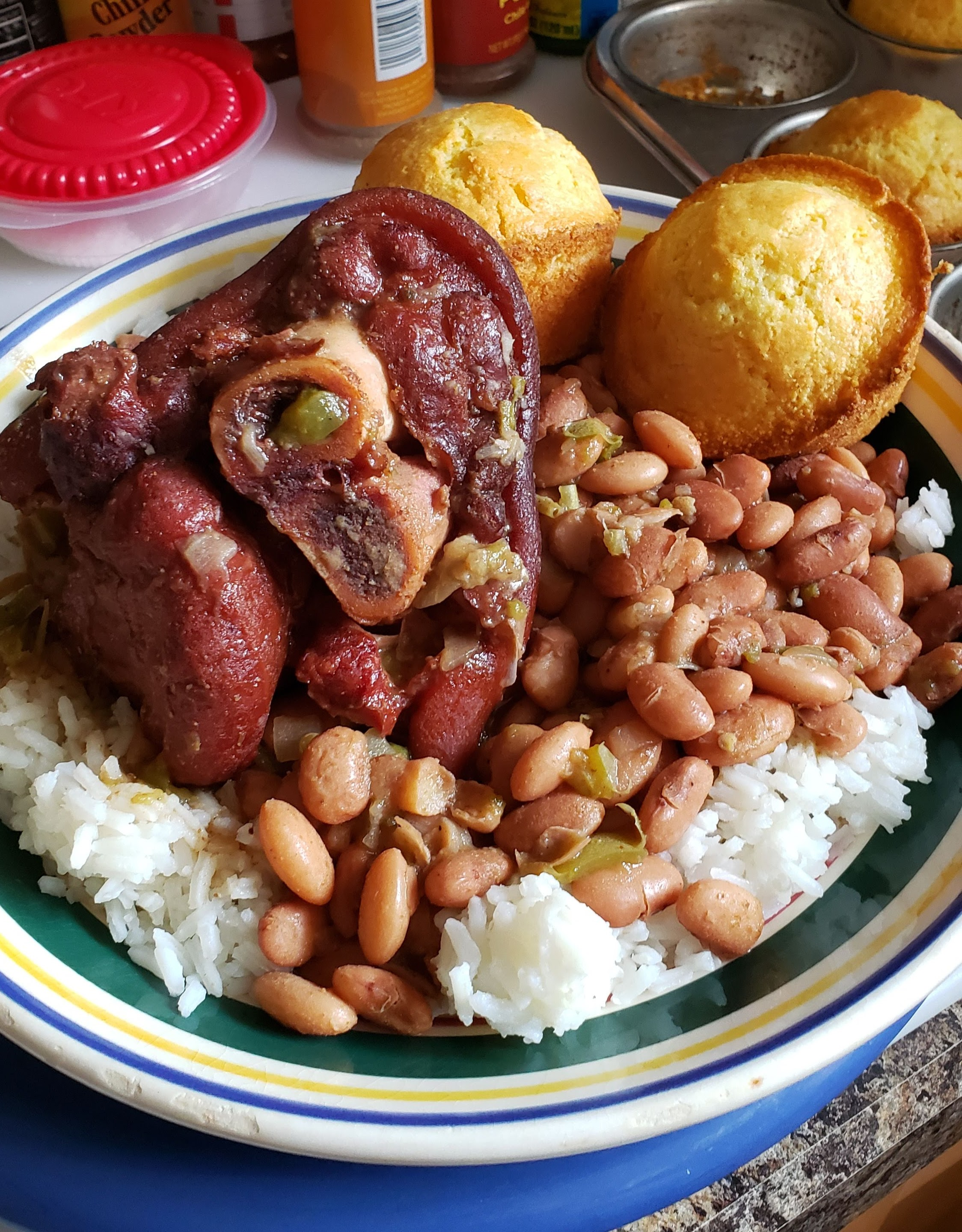 Ham hock cooked with pinto beans, served with white rice and corn muffins.In the style of southern US cooking.